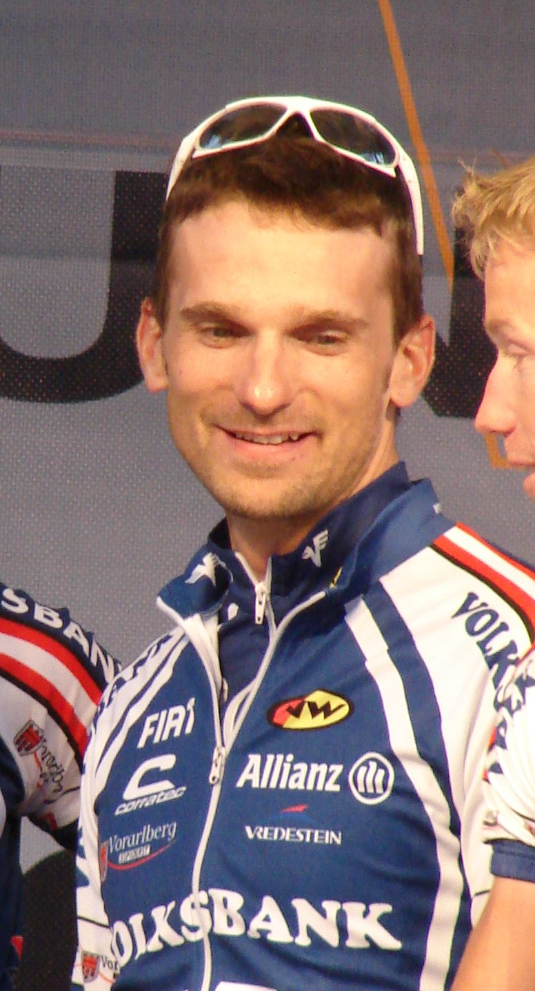 Austrian bicycle racer Werner Riebenbauer during the "Nightrace .07" in Waidhofen an der Ybbs on August 24, 2007.